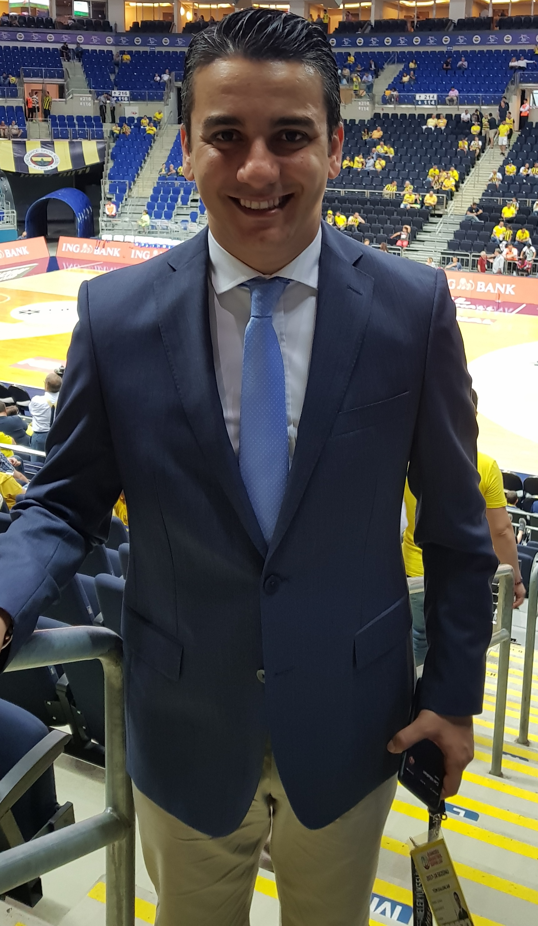 İsmail Şenol 20180613